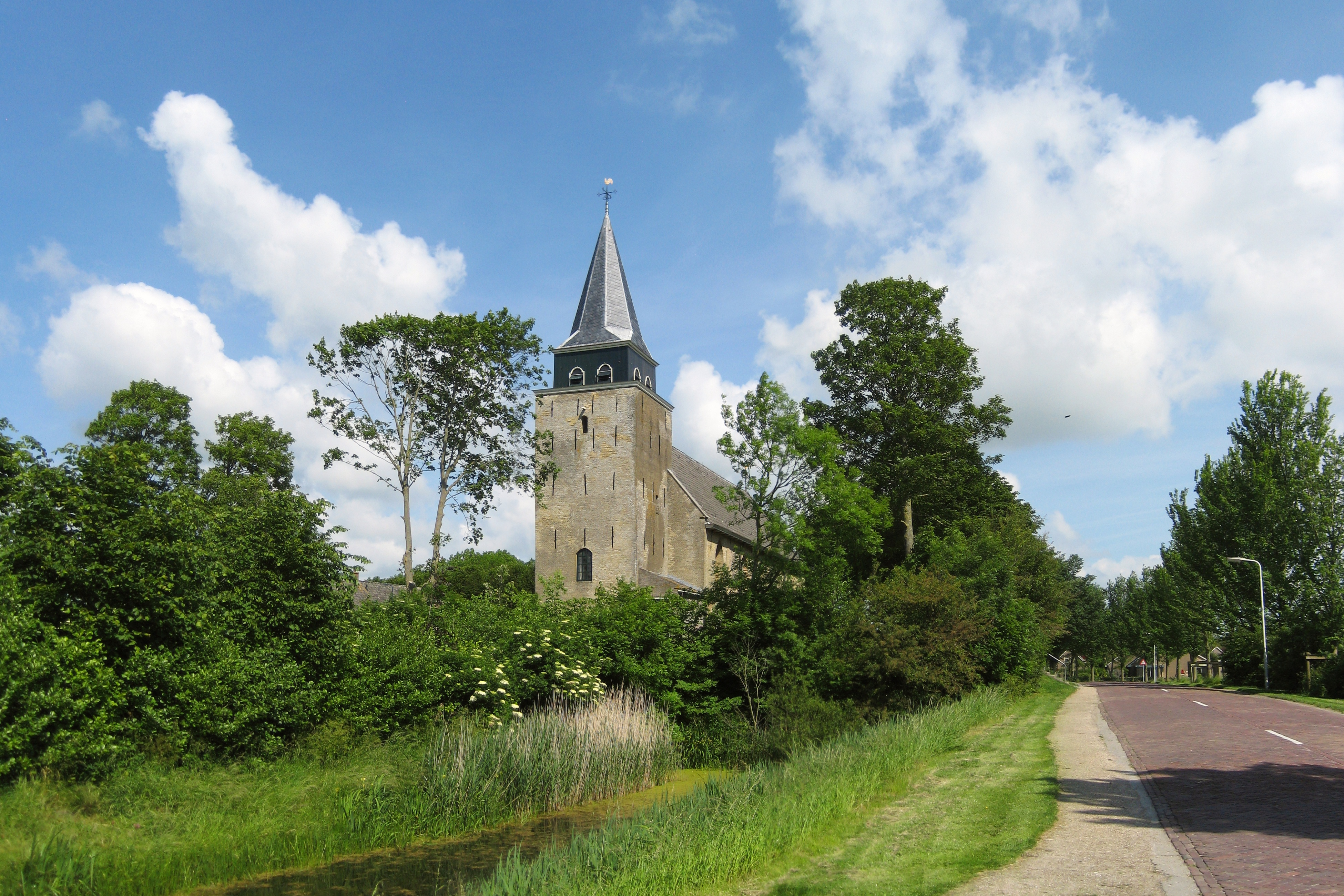 The church of Achlum, a village in the Dutch province of Fryslân.